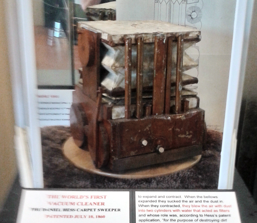 The patent model for Daniel Hess's carpet-sweeper displayed at the Don Aslett Museum of Clean in Pocatello, Idaho; the only physical piece of the sweeper in existence.